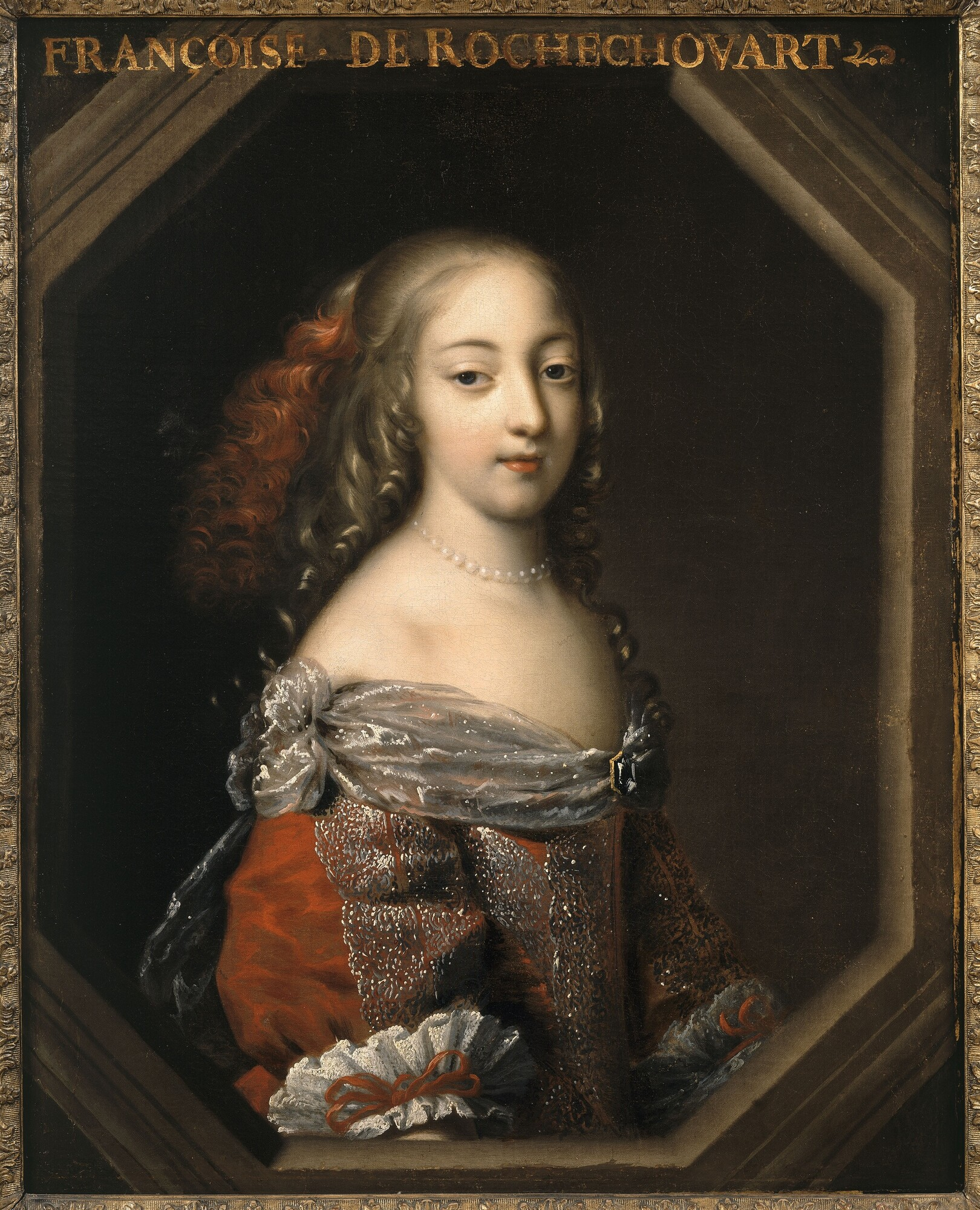 Portrait of Françoise de Rochechouart (1640-1707) (future Madame de Montespan and mistress of Louis XIV of France)